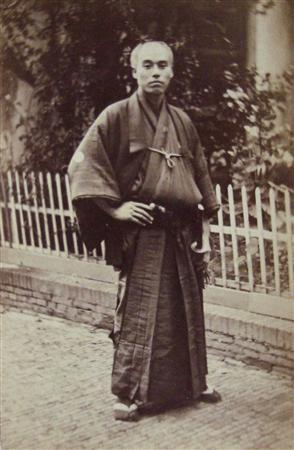 Fukuzawa Yukichi as an interpreter of the First Japanese Embassy to Europe (1862) in Utrecht, Netherlands.